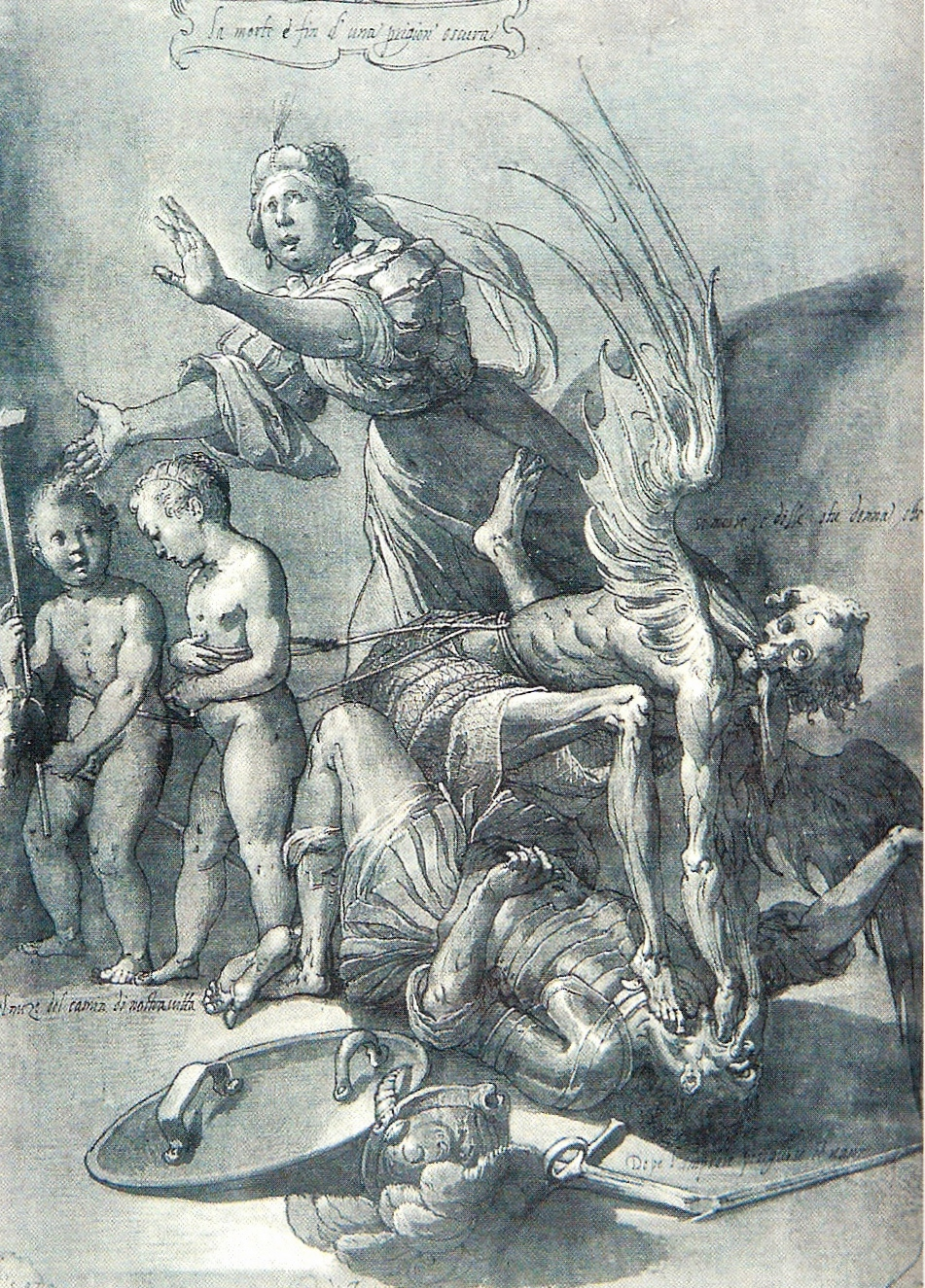 Allegory of a warrior death by Jacopo Ligozzi